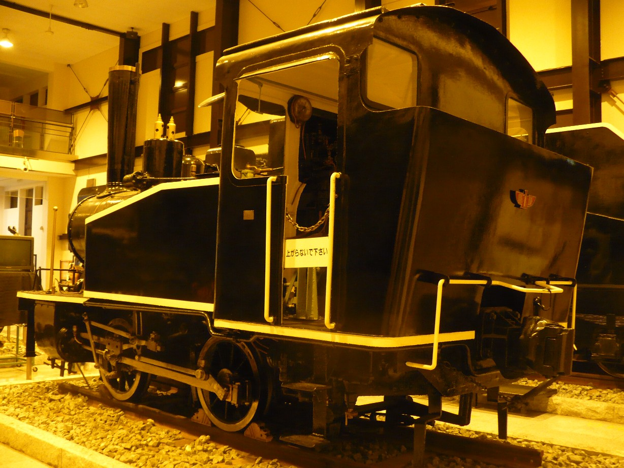 Wakataka steam locomotive preserved at 19th-century hall, Kyoto, Kyoto, Japan. From left rear position.